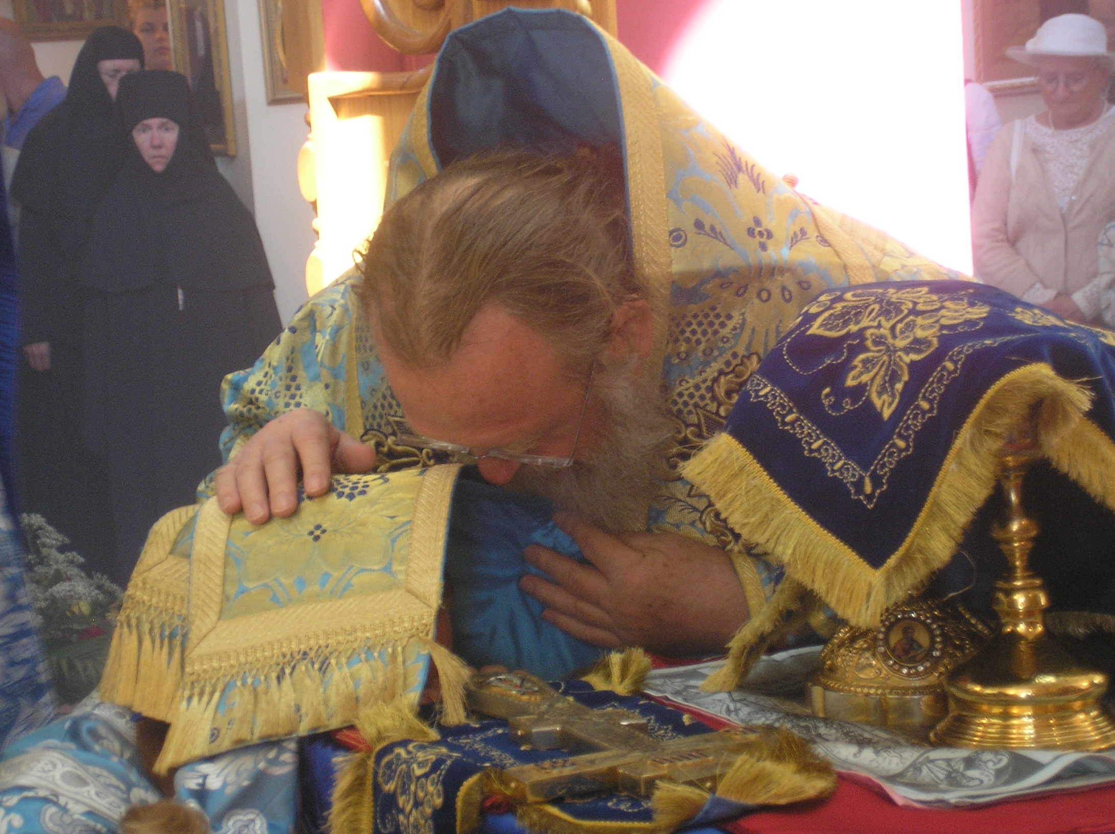 Ordination of an orthodox priest. The deacon being ordained is kneeling at the south west corner of the holy table and the bishop places his omophorion and right hand on the deacon's head and waits for the the singing of hymns to finish before commencing the prayers of Cheirotonia (laying on of hands).